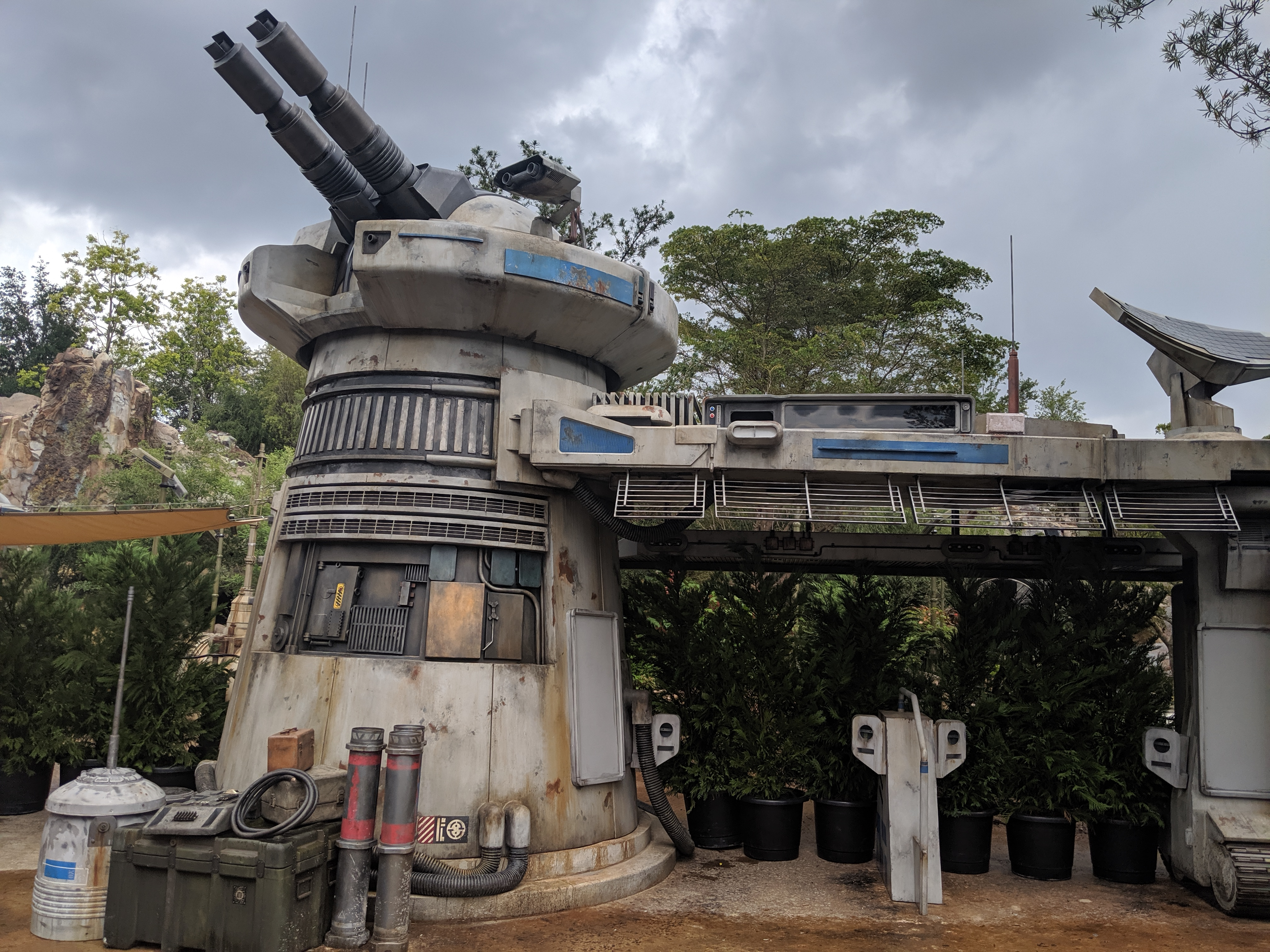 Rise of the Resistance Entrance